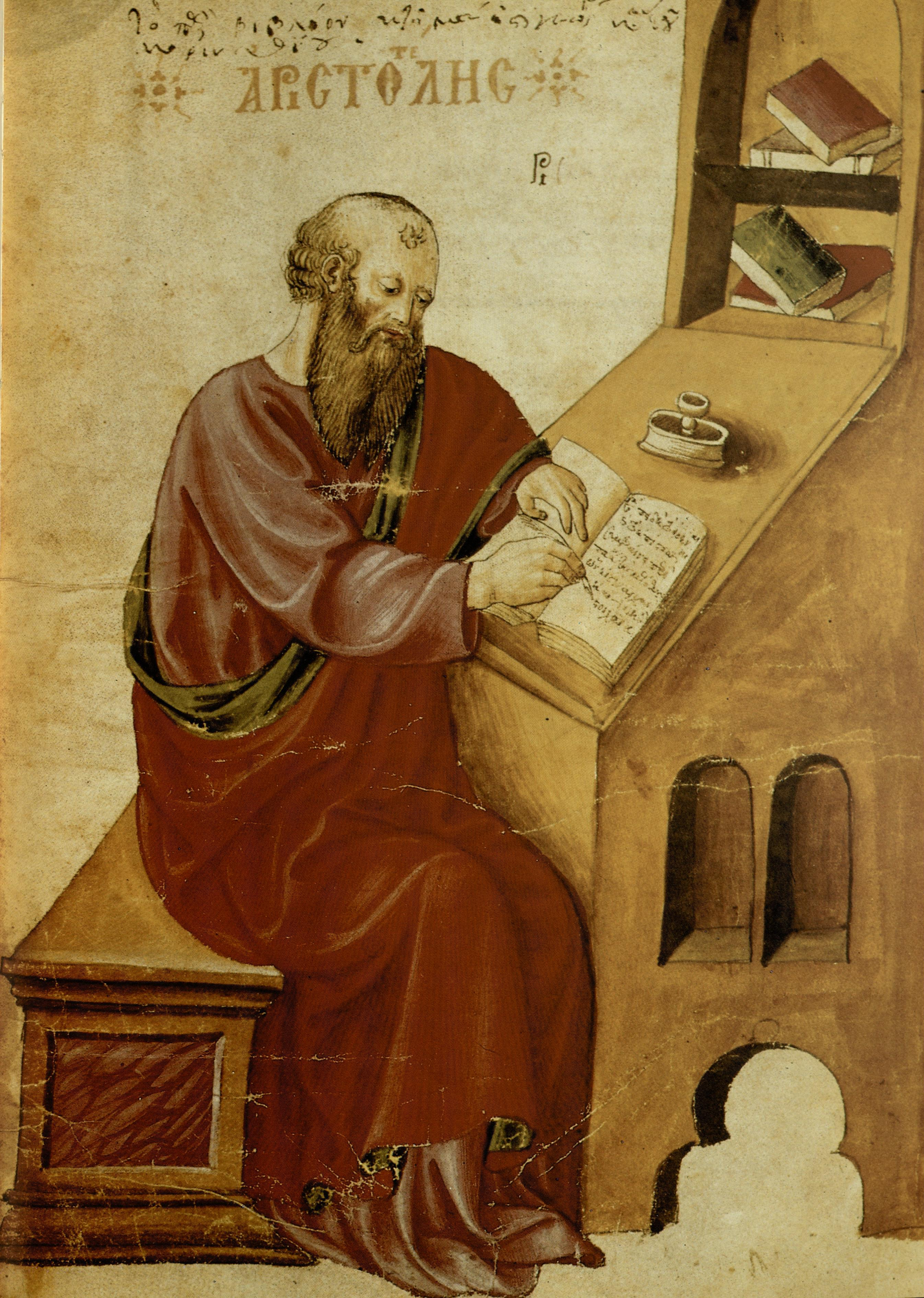 Aristotle at his writing-desk. Miniature in the manuscript Vienna, Österreichische Nationalbibliothek, Cod. phil. gr. 64, fol. 8v.